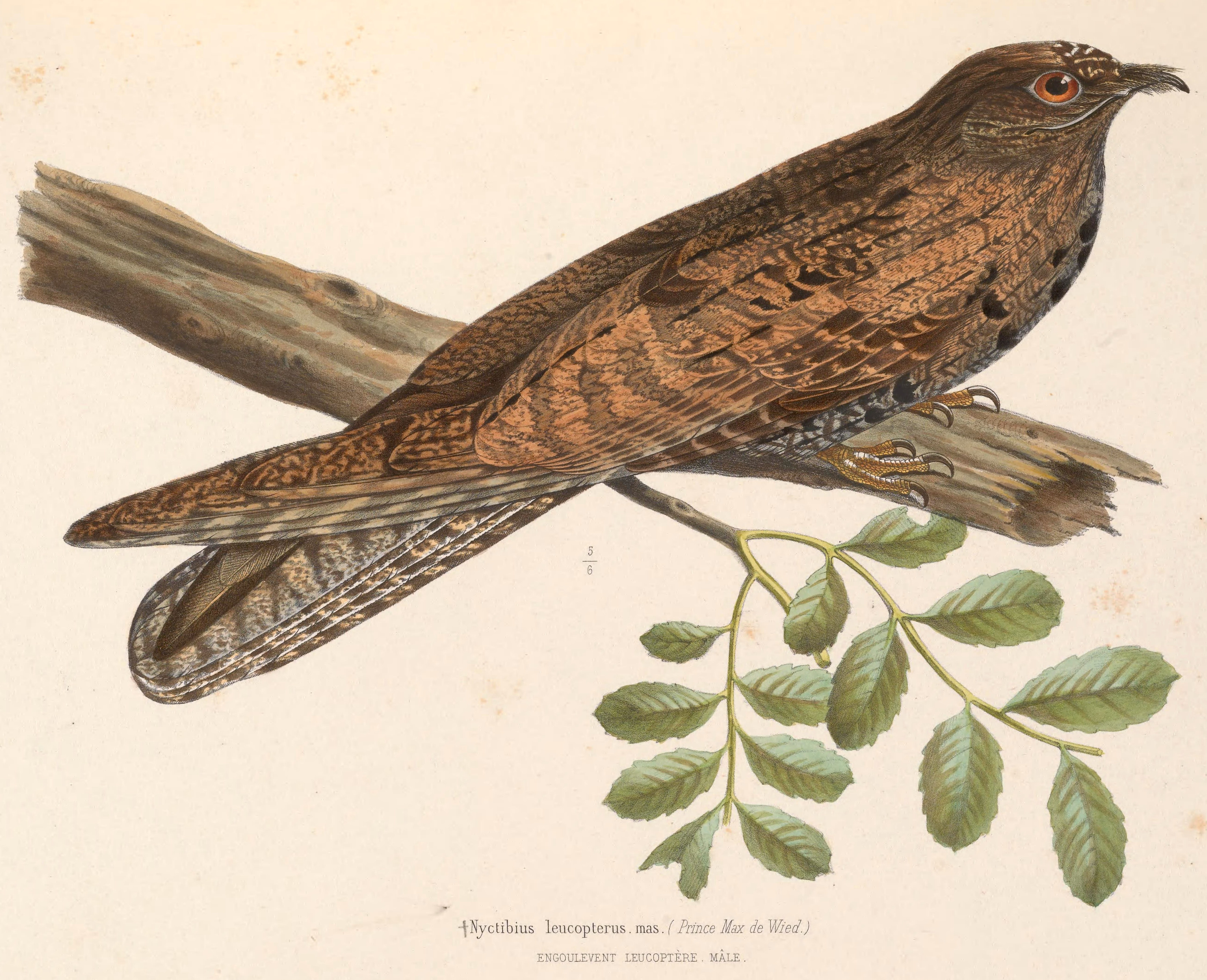 Nyctibius leucopterus = Nyctibius leucopterus (White-winged Potoo) - male